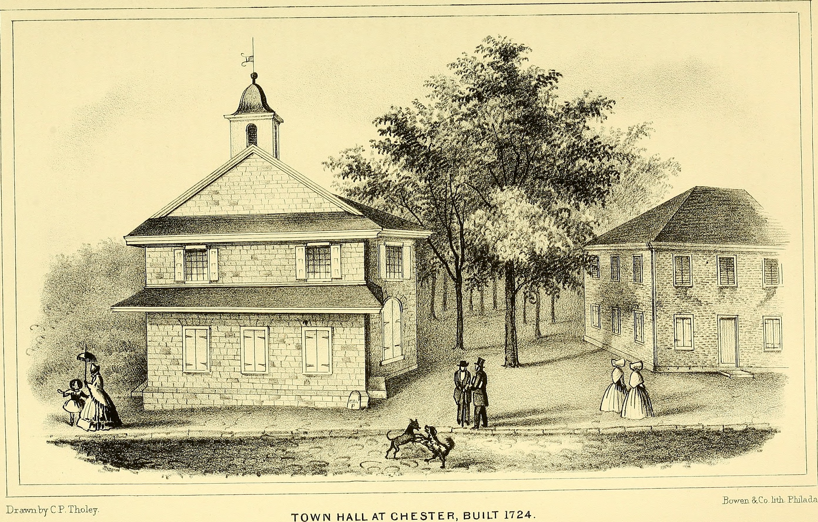 Image from page 270 of "History of Delaware County, Pennsylvania, from ..." 1862. published by the Delaware Institute of Science. Shows the Town Hall of Chester, PA, aka the 1724 Chester Courthouse. Republished on Flickr by Internet Archives Book Images